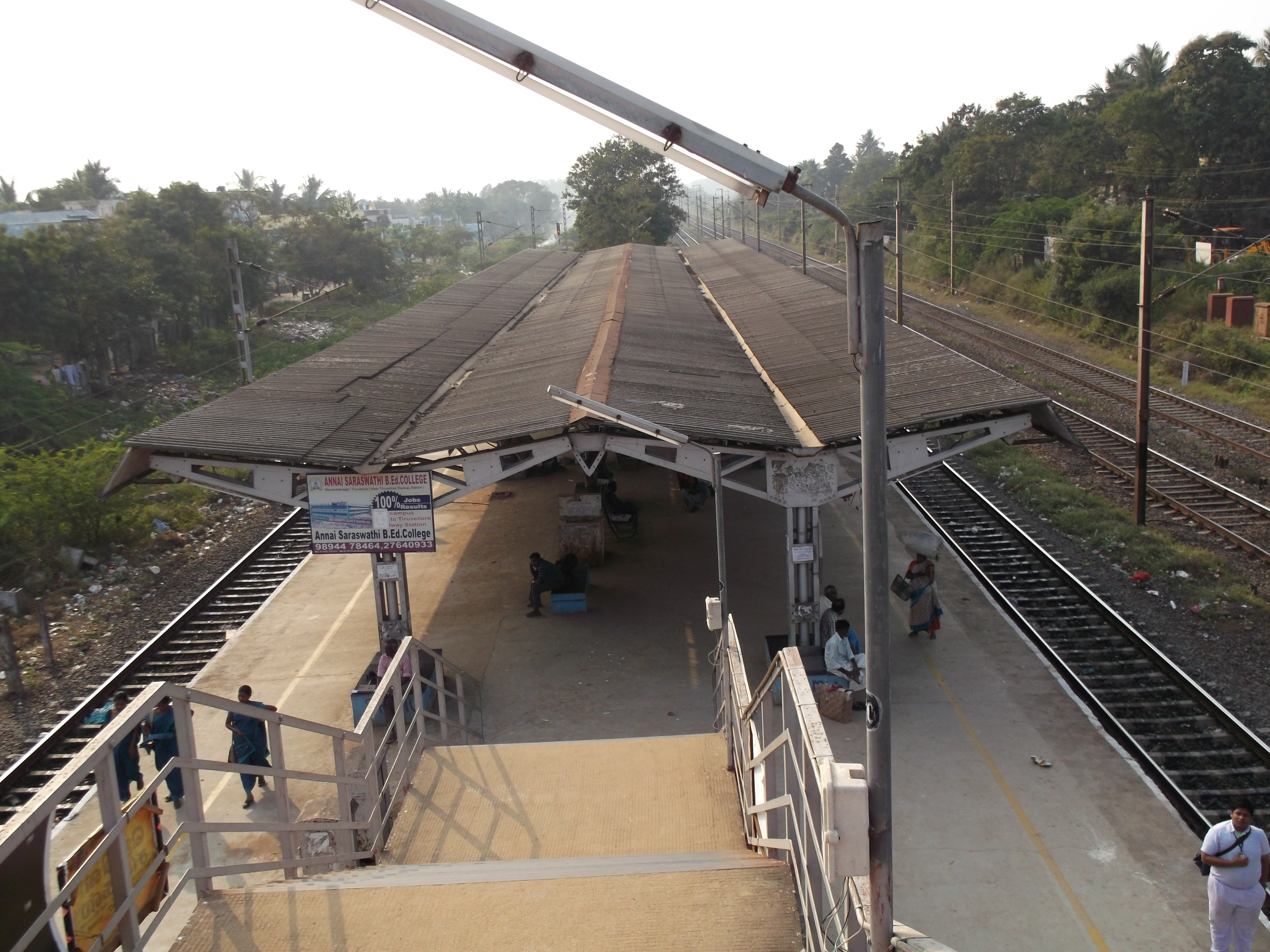 Chennai Suburban Railway, Thirumullaivoyil, stairs towards the western side, taken on 28-Jan-2013 at 4.00 pm